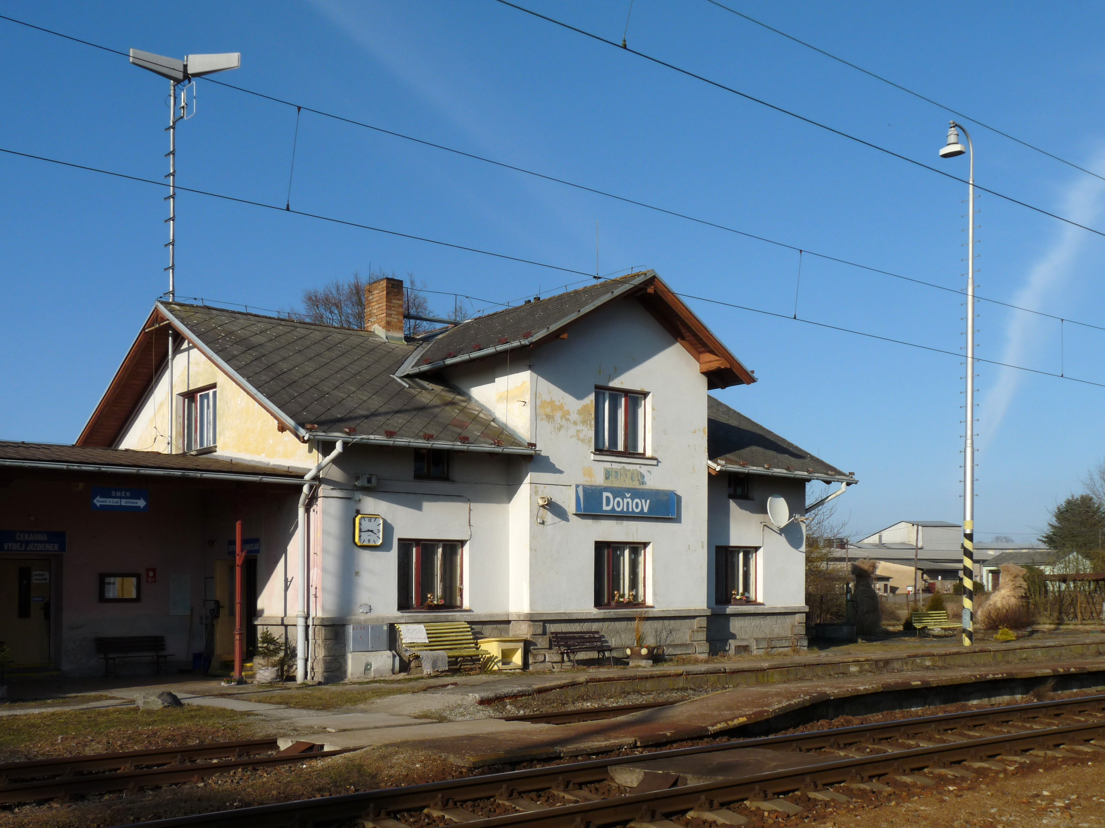 Train station Doňov in the village of Záhoří, Jindřichův Hradec District, South Bohemia, Czech Republic.